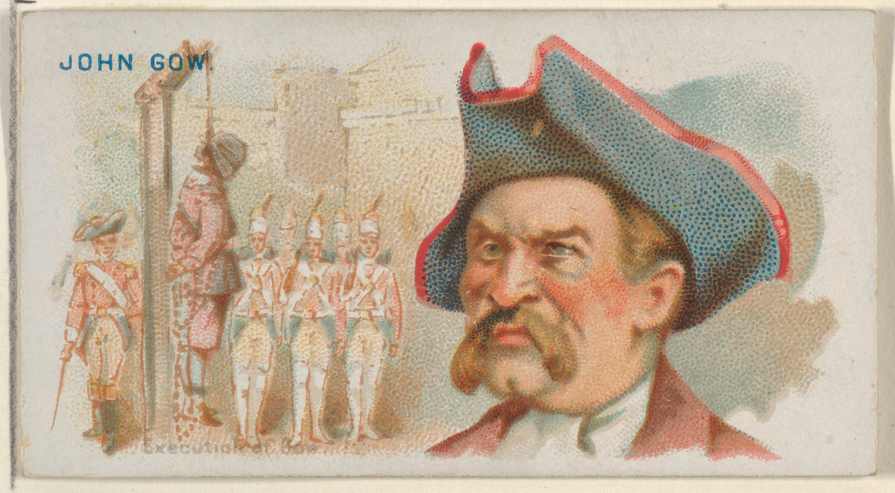 Print; Prints